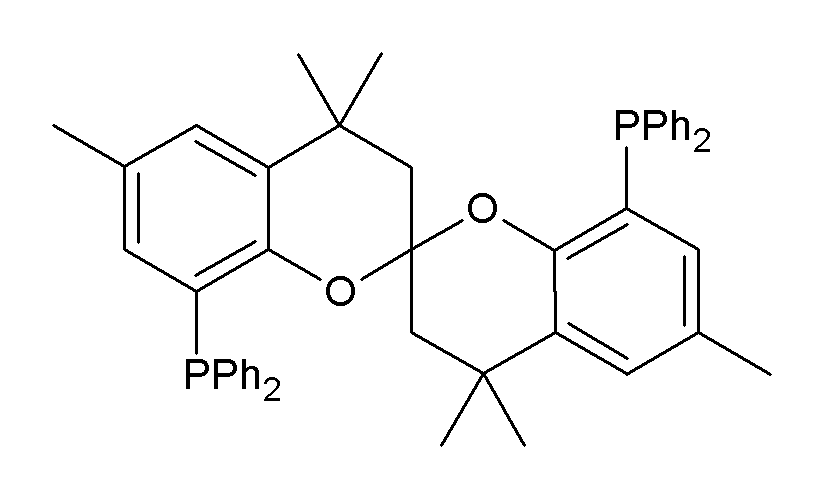 SPANphos